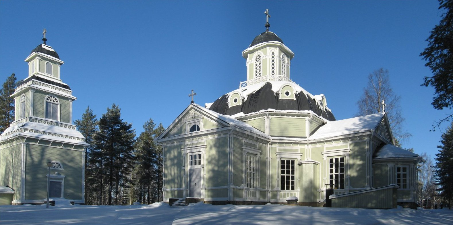 The church of Konginkangas with the belfry to the left (Feb 25, 2009) in Äänekoski, Finland